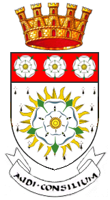 West Riding of Yorkshire coat of arms.